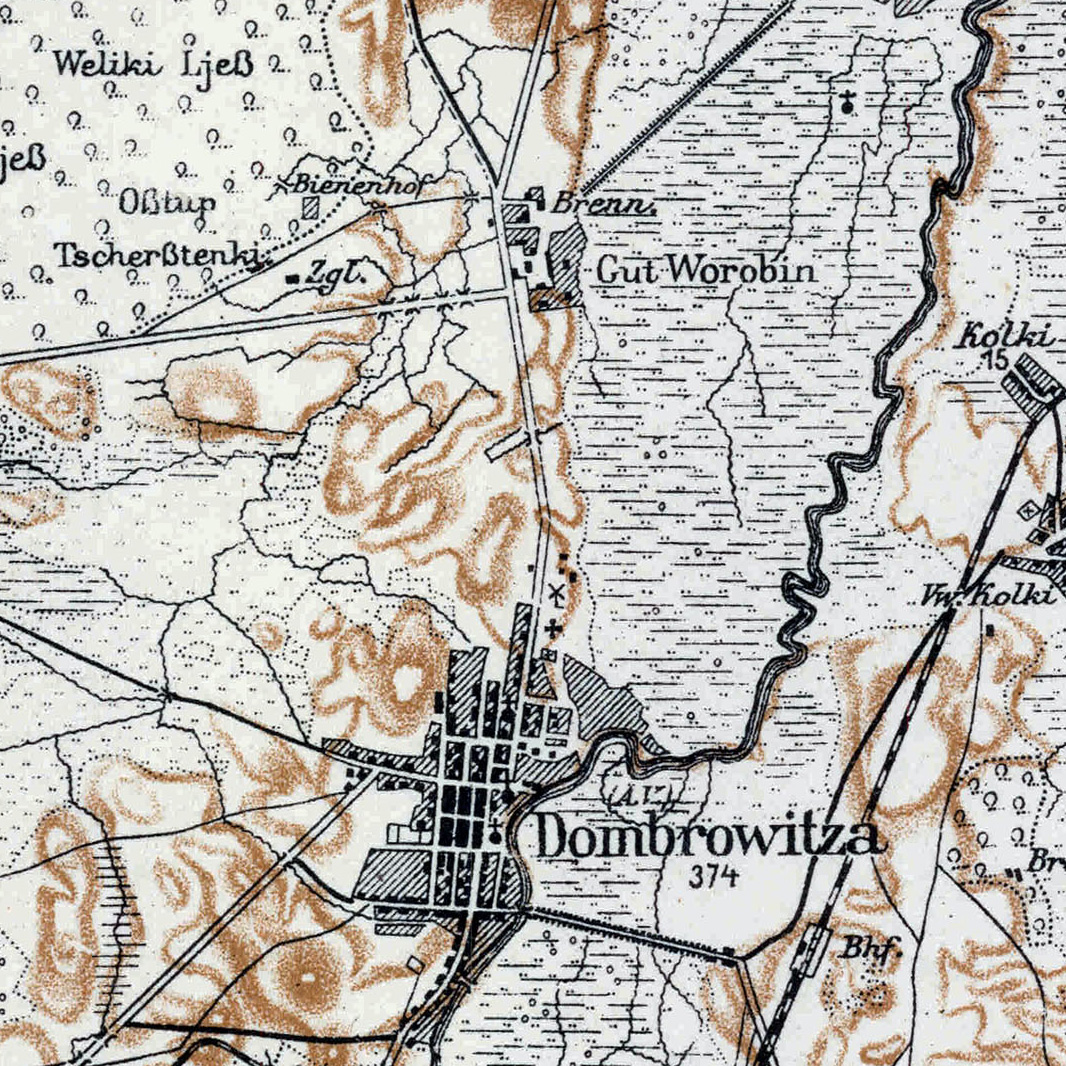 Dubrovytsia on the map "Karte des Westlichen Russlands", T 35, 1917. According to Digital Repository of Scientific Institutes and Kujawsko-Pomorska Digital Library the map is in the public domain.